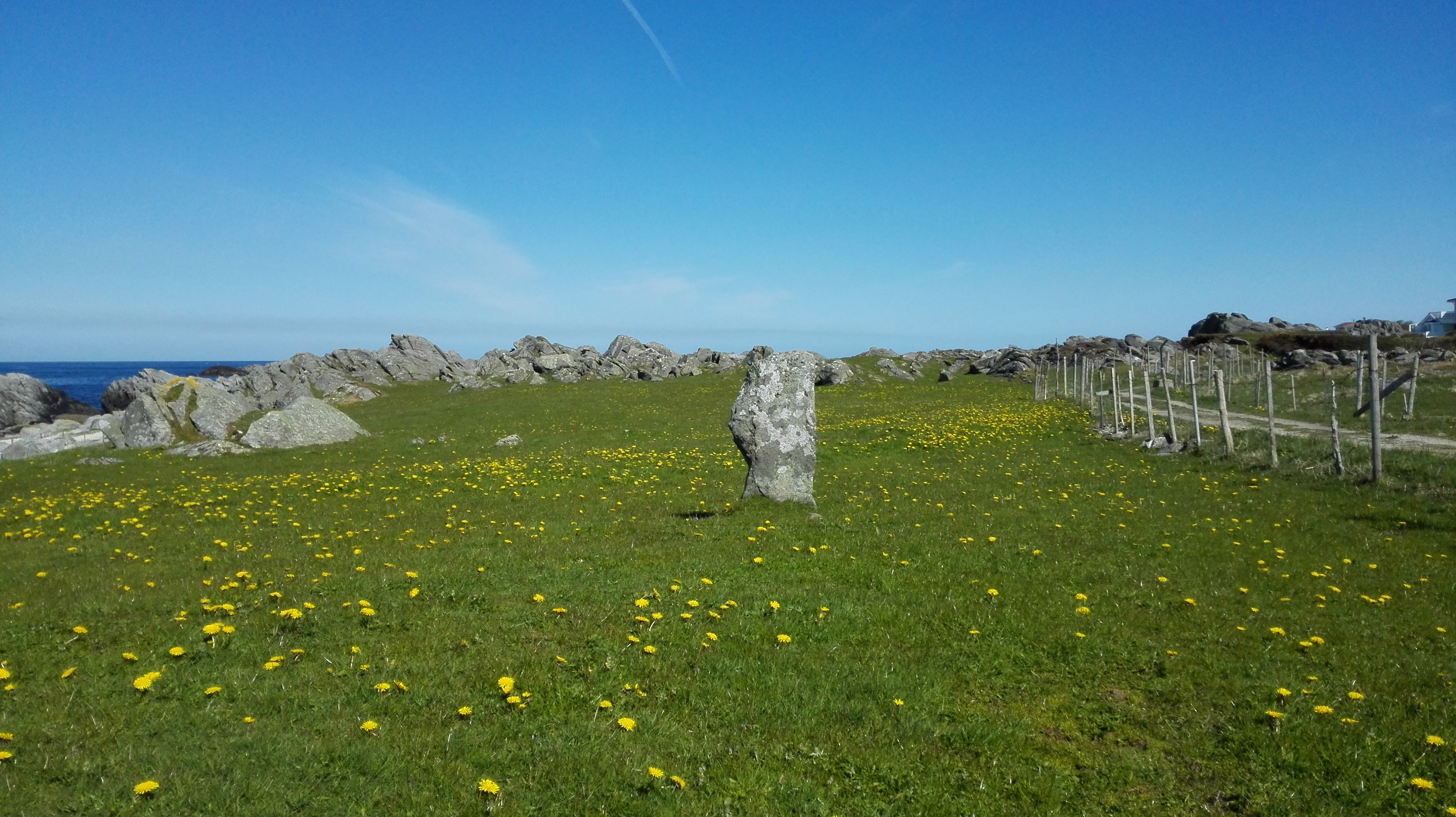 The larger of the two grave stones for King Augvalds daughters. Located at Stavasletta, Norway where the maidens killed themselves in the battle against king Ferking.